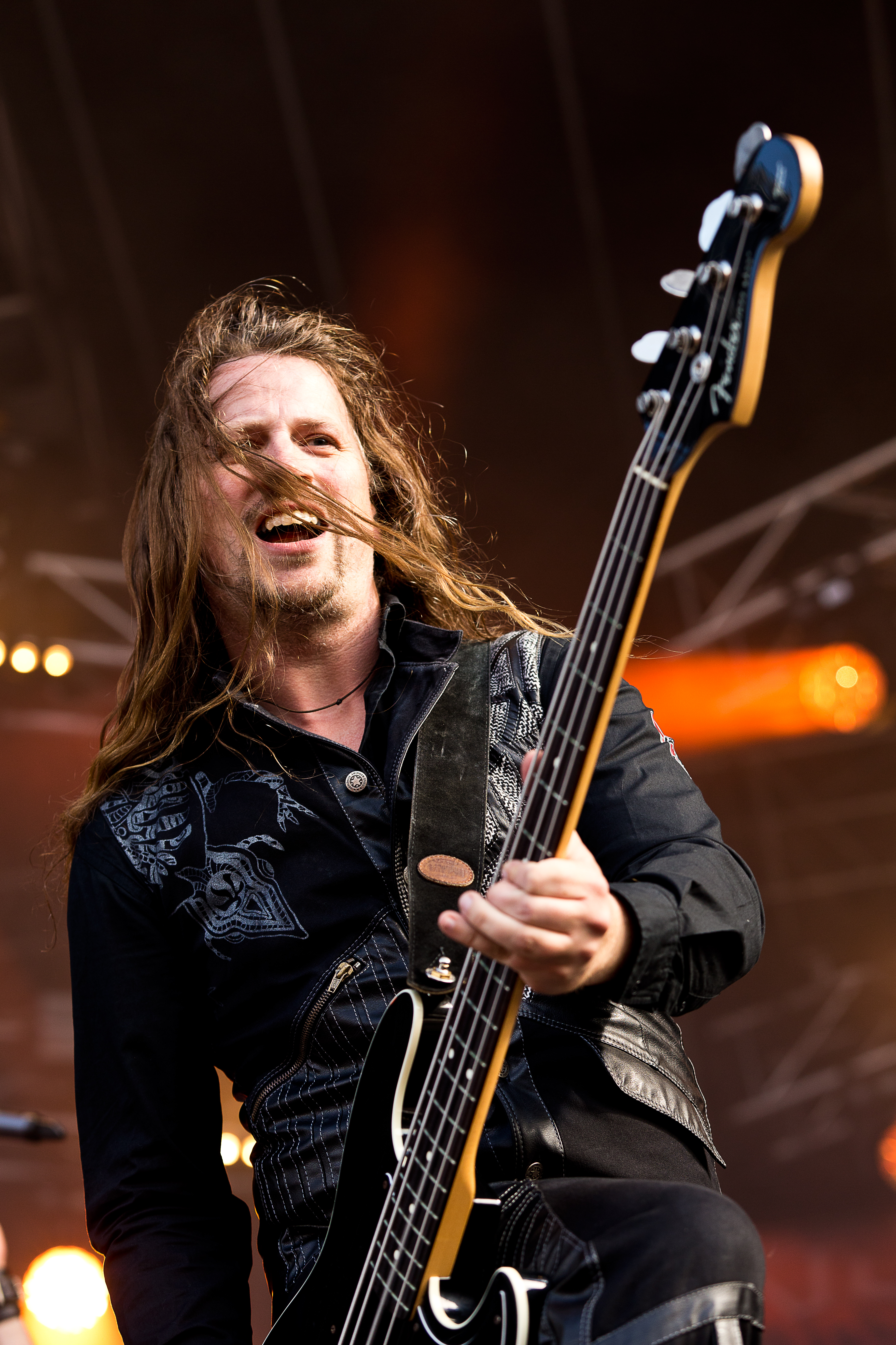 The German metal band Die Apokalyptischen Reiterat the Rockharz Open Air 2015 in Ballenstedt/Germany.